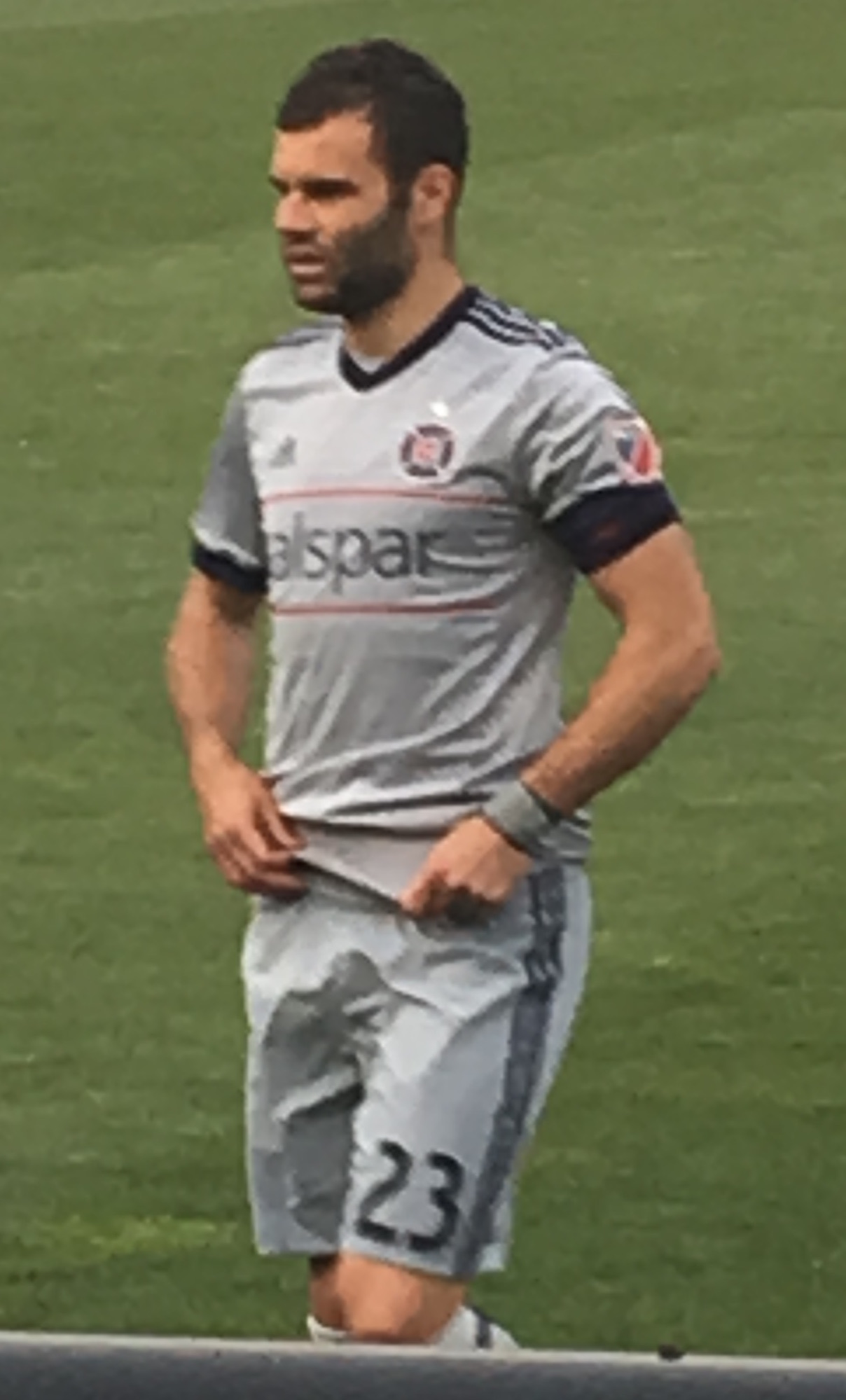 Picture of Nemanja Nikolic before a game against against Columbus Crew SC on May 12, 2018.